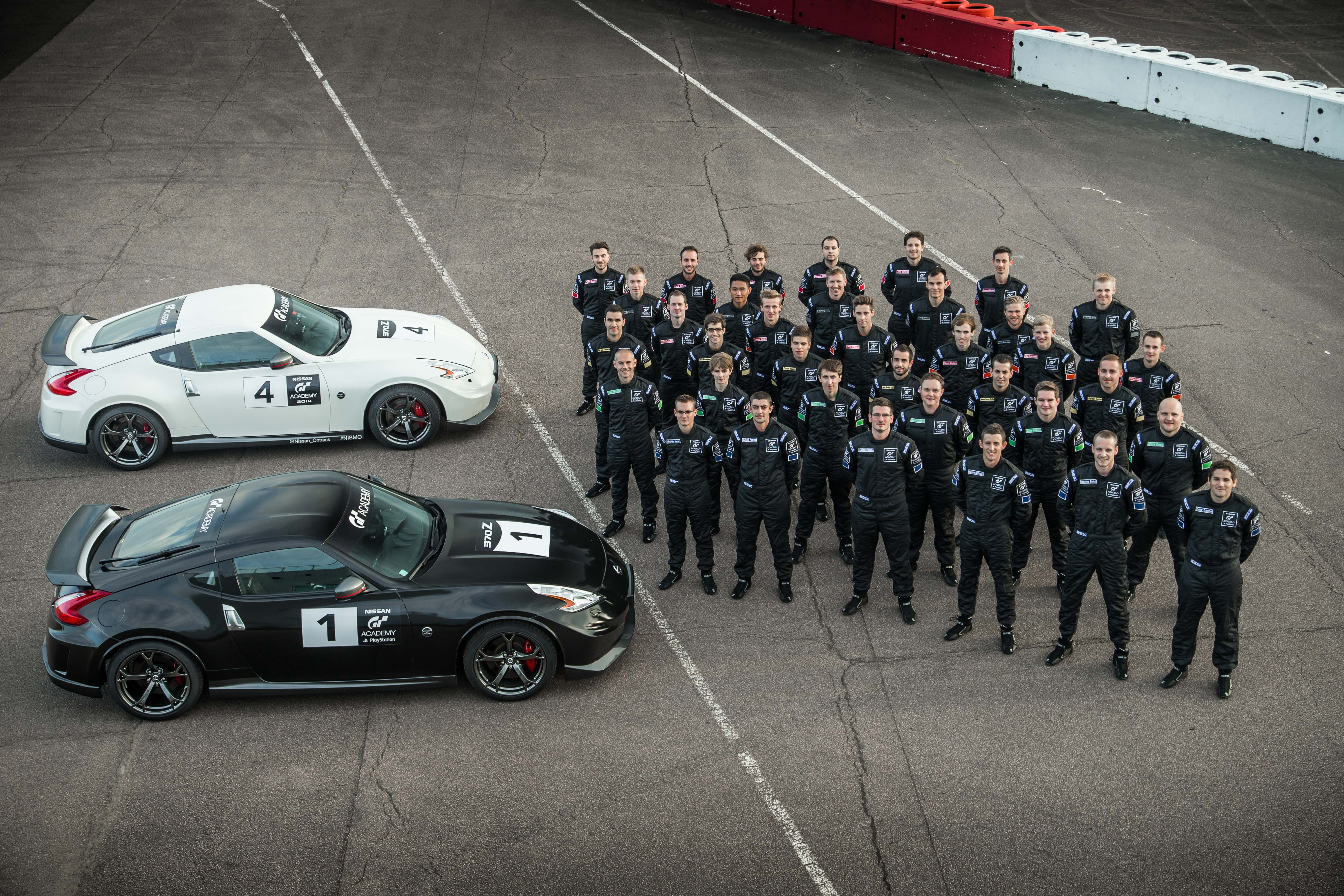 2014 GT Academy Race Camp Europe